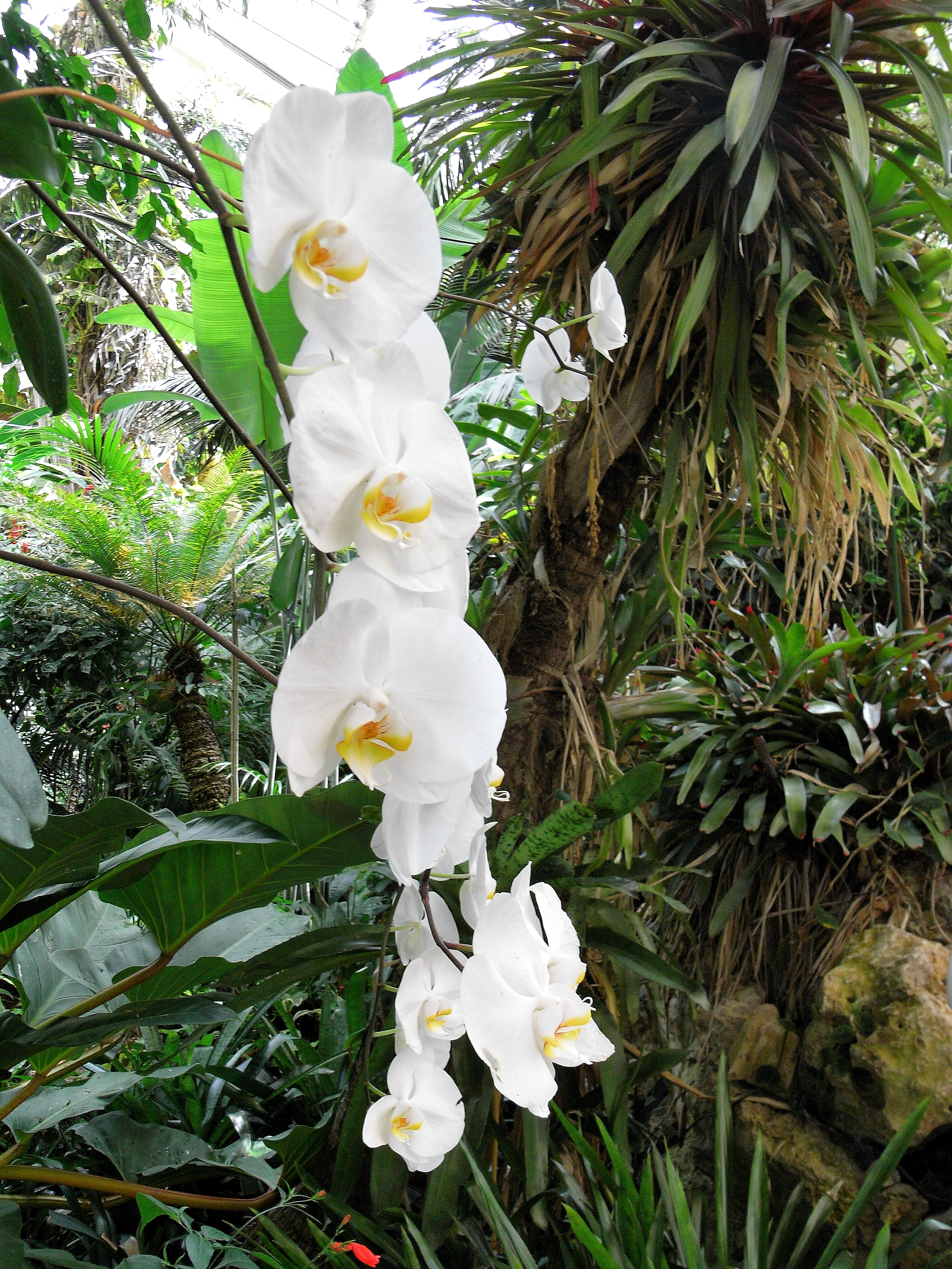 The oldest phalaenopsis was described in 1750: Phalaenopsis amboinensis.